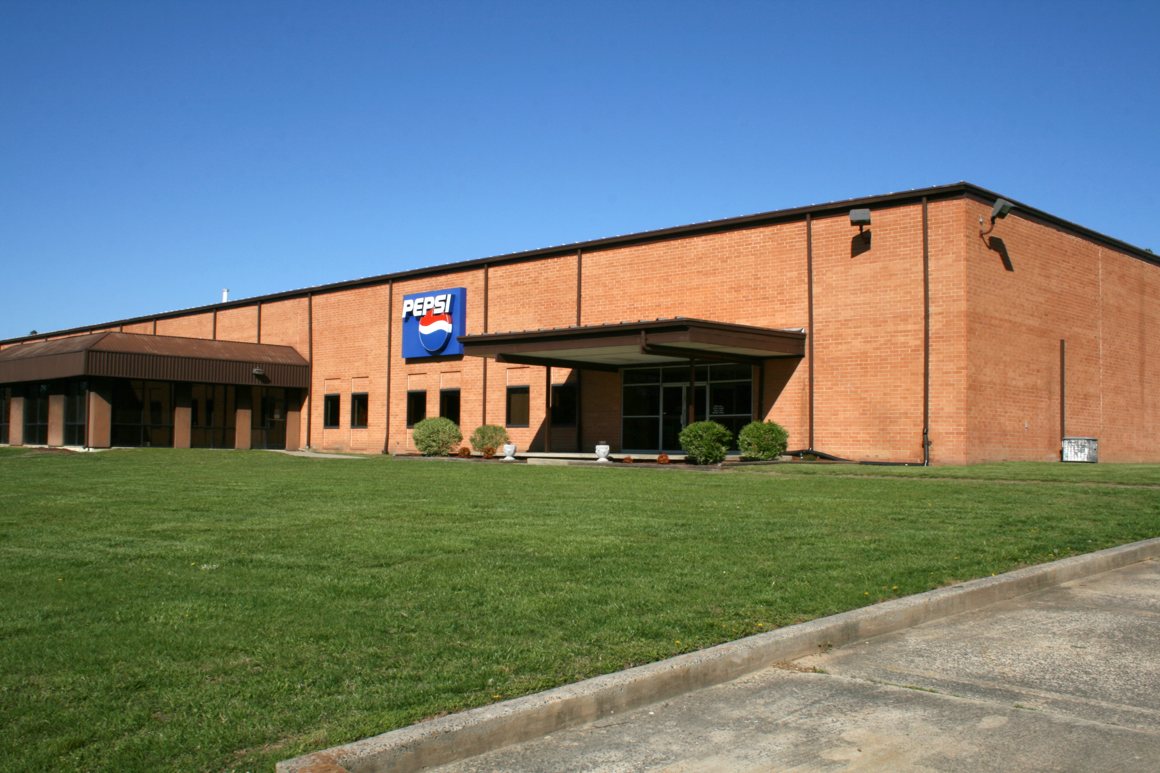 Pepsi Cola Bottling Company of Durham, Inc. at 2717 Western Bypass in Durham, North Carolina.